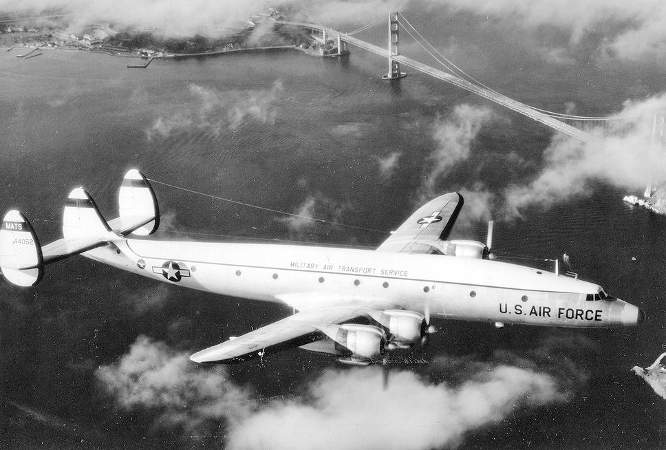 Lockheed C-121G-LO 54-4052 1501st Air Transport Group over Golden Gate Bridge